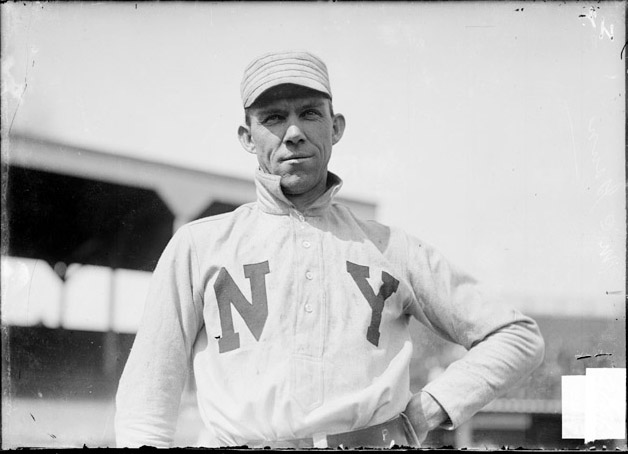 [New York Giants first baseman Dan McGann, standing on the field at West Side Grounds]. Chicago Daily News, Inc., photographer. CREATED/PUBLISHED 1905. SUMMARY Portrait of first baseman Dan McGann, National League's New York Giants baseball player, standing on the field at West Side Grounds, which was located between West Polk Street, South Wolcott Avenue (formerly Lincoln Street), West Taylor Street, and South Wood Street, in the Near West Side community area of Chicago, Illinois. The grandstands and bleachers are visible in the background. The New York Giants were the 1905 World Series Champions. NOTES This photonegative taken by a Chicago Daily News photographer may have been published in the newspaper. Cite as: SDN-003761, Chicago Daily News negatives collection, Chicago History Museum. SUBJECTS McGann, Dan. New York Giants (Baseball team) National League of Professional Baseball Clubs West Side Grounds (Chicago, Ill.) Baseball players--New York (State)--New York--1900-1909. Near West Side (Chicago, Ill.)--1900-1909. Chicago (Ill.)--1900-1909. Portraits. Dry plate negatives. Gelatin dry plate negatives. United States--Illinois--Cook County--Chicago. MEDIUM 1 negative : b&w, glass ; 5 x 7 in. REPRODUCTION NUMBER SDN-003761 REPOSITORY Chicago History Museum, 1601 North Clark Street, Chicago, IL 60614-6038. DIGITAL ID (original negative) ichicdn s003761